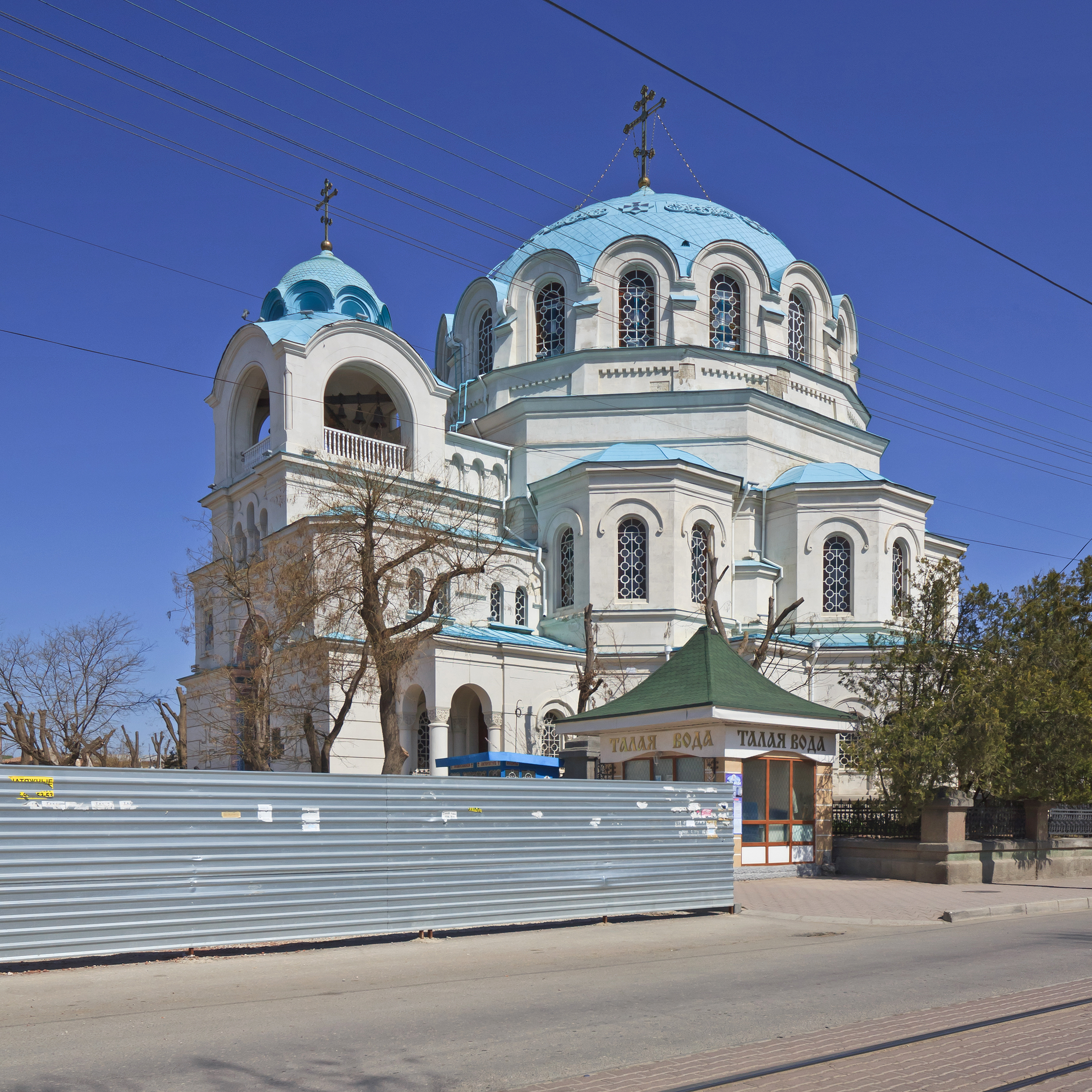 St. Nicholas Cathedral in Eupatoria, Crimean Peninsula.